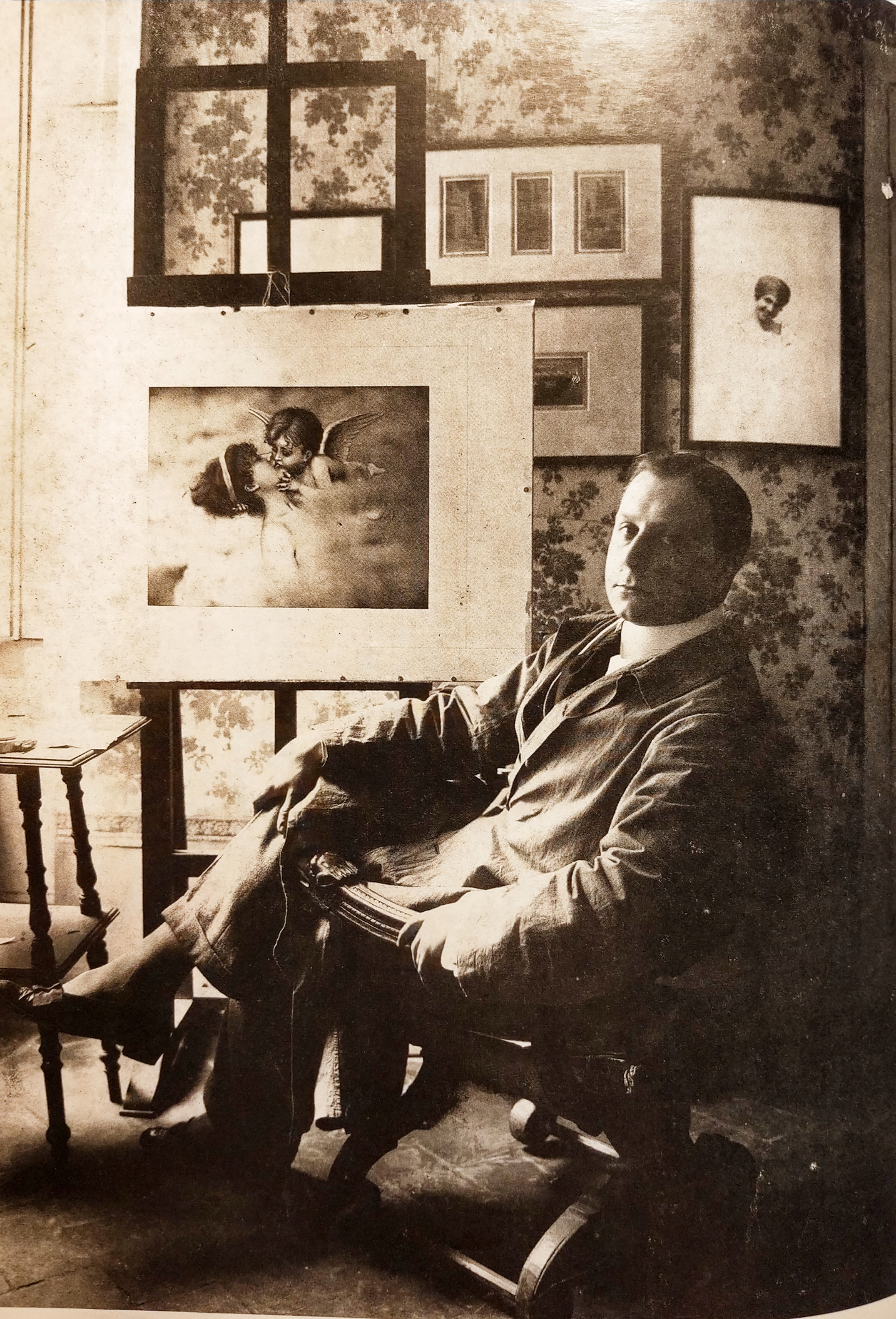 Rero (Ferrara province), Villa Baglioni